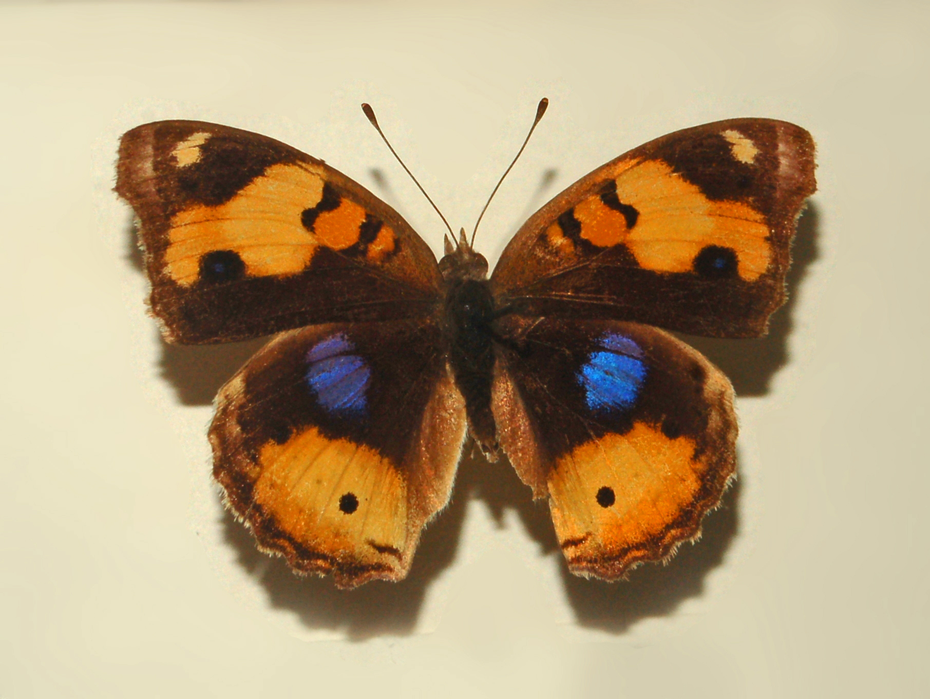 Junonia hierta cebrene from Eritrea. Mounted specimen